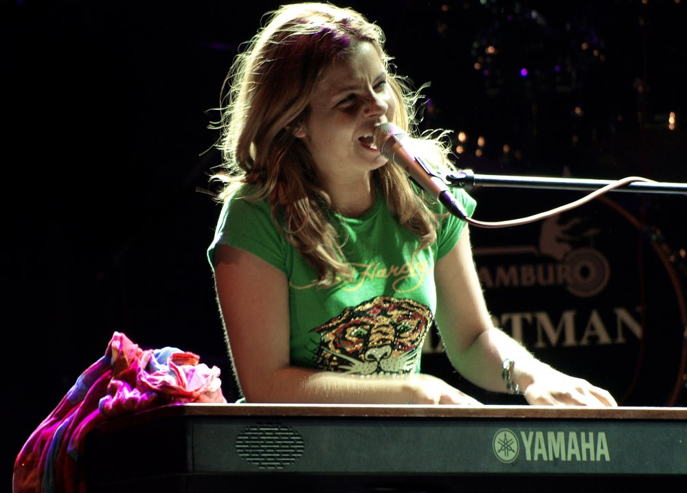 Radio City prijateljem 2008 concert